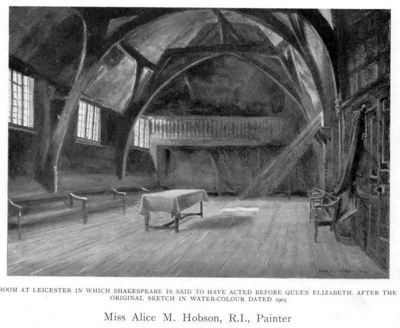 1905 print after page of Women painters of the world, from the time of Caterina Vigri, 1413-1463, to Rosa Bonheur and the present day, by Walter Shaw Sparrow, The Art and Life Library, Hodder & Stoughton, 27 Paternoster Row, London